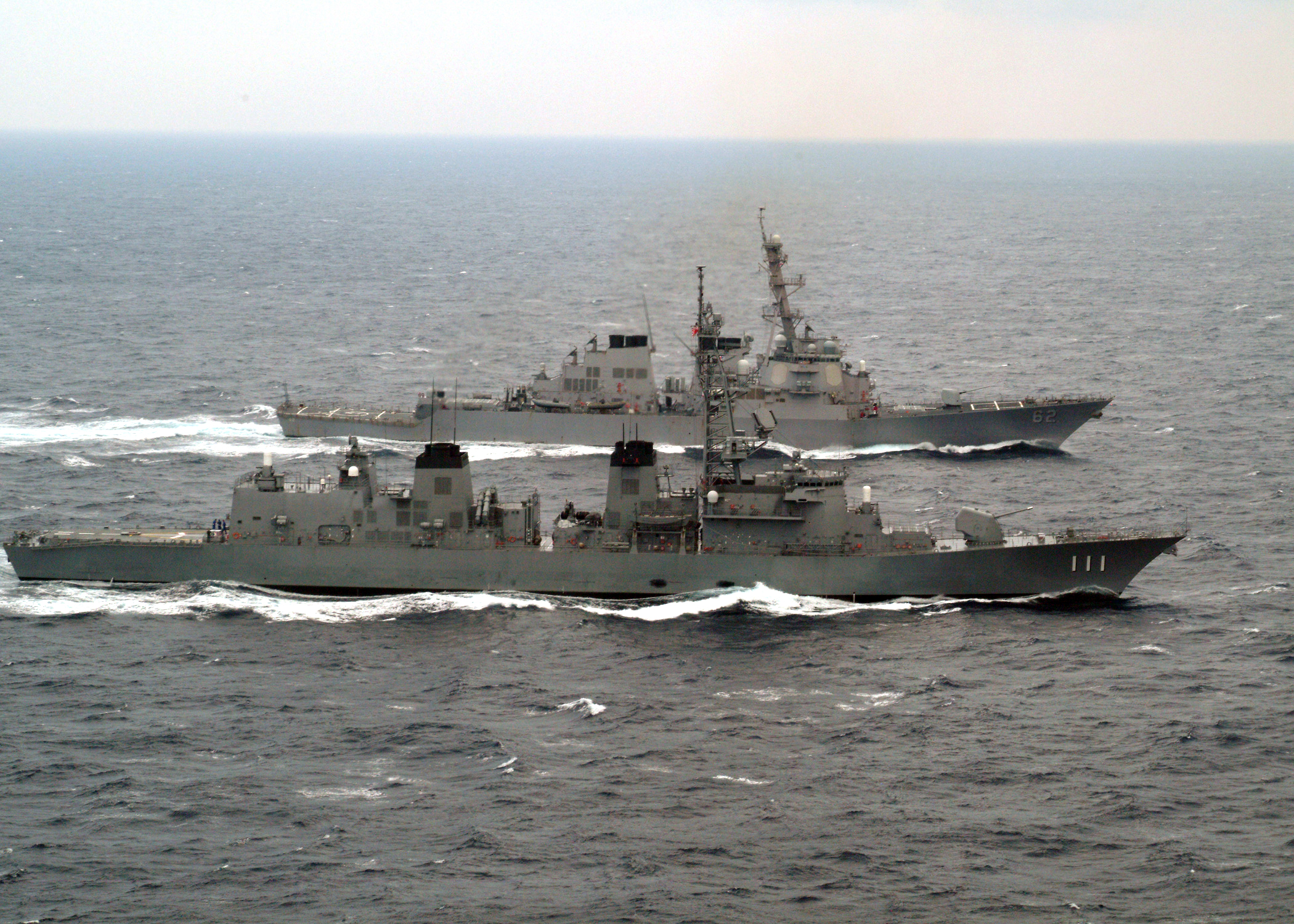 PACIFIC OCEAN (Dec. 3, 2007) - The Japan Maritime Self-Defense Force destroyer JS Ōnami (DD-111) and its sister ship USS Fitzgerald (DDG-62) steam together during a photo exercise. Ōnami and Fitzgerald are participating in the Ship Antisubmarine Warfare Readiness and Evaluation Measurement (SHAREM) 155. SHAREM focuses on antisubmarine warfare procedures and tactics designed to measure how effectively surface ships and aircraft can detect and track submarines. U.S. Navy photo by Mass Communication Specialist Seaman Bryan Reckard (Released)